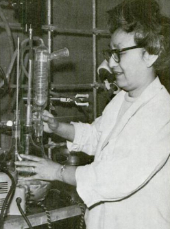 A middle-aged Chinese woman wearing a lab coat and glasses, working with chemistry laboratory equipment.